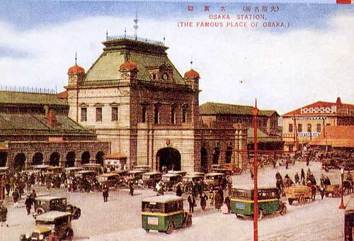 Taxi awaiting passengers at Osaka Station (the second depot, front).